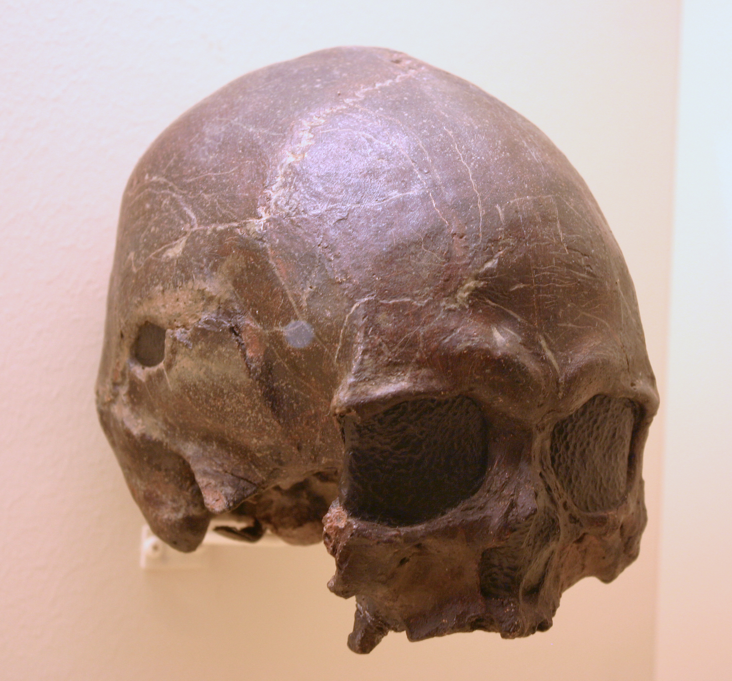 Tepexpan 1 Site: Tepexpan, Mexico Year of Discovery: 1947 Discovered by: H. de Terra Age: About 4,700 years old Species: Homo sapiens Reference: Tepexpan 1. Human Origins. Washington, DC: Smithsonian National Museum of Natural History. 30 March 2016.